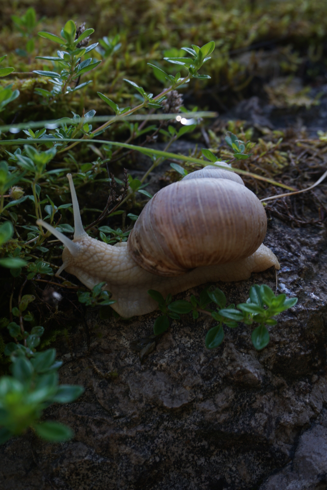 a snail using the morning dew to refresh itself